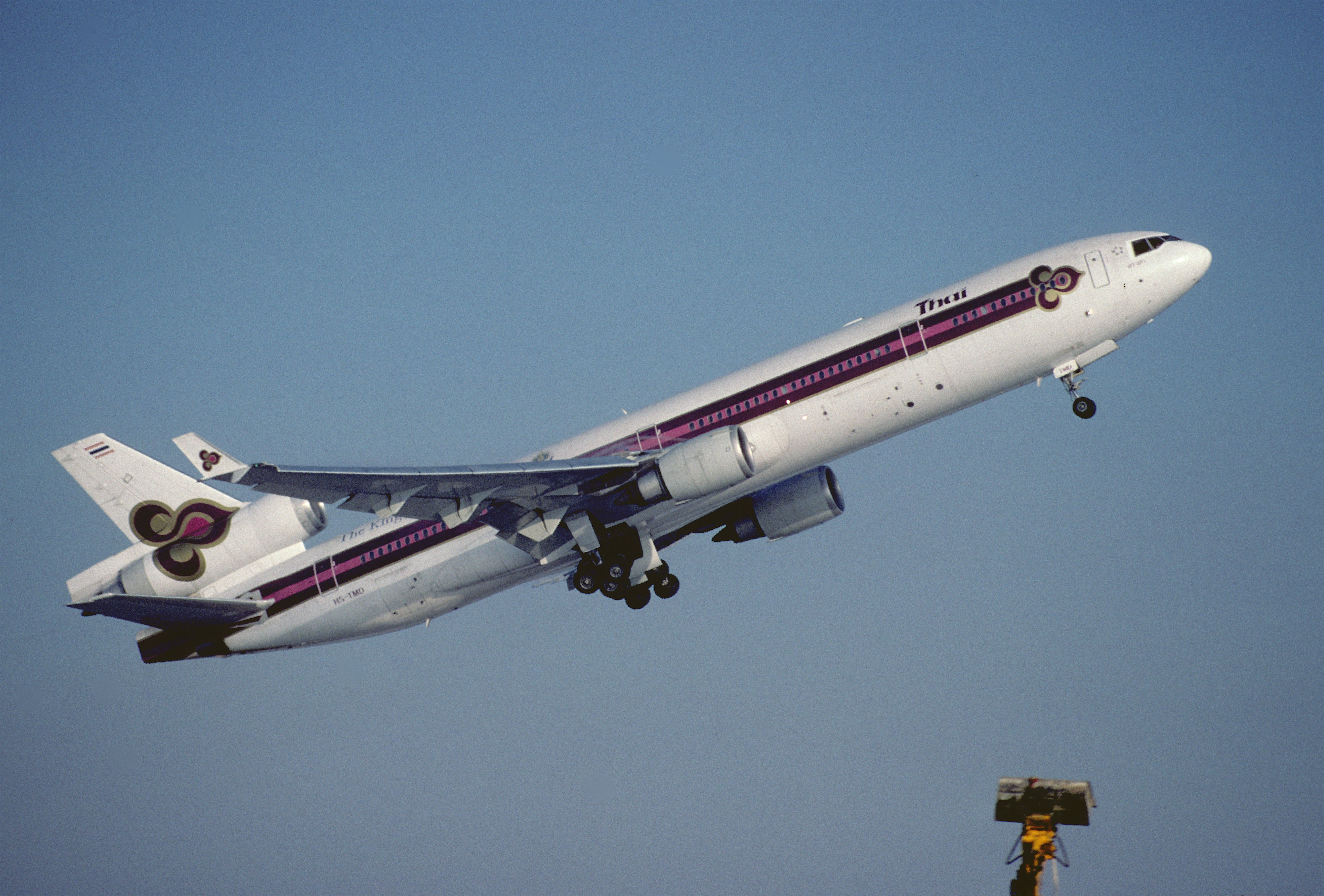 78ae - Thai Airways International MD-11; HS-TMD@ZRH;30.11.1999